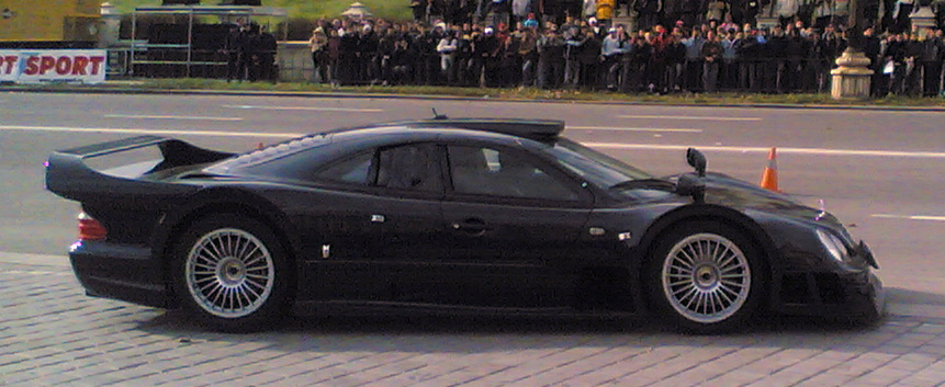 Cropped version of another photo